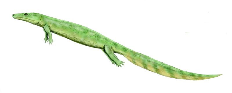 Greererpeton burkemorani, a temnospondyli colosteid from the Early Carboniferous of North America, pencil drawing